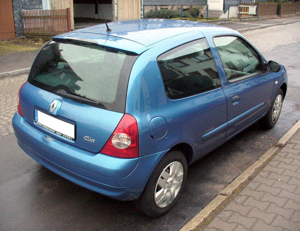 Renault Clio II Phase III